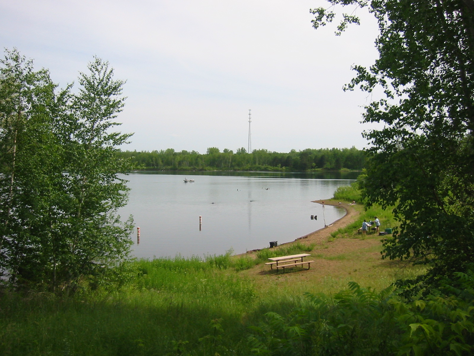 Portsmouth Lake near Crosby, Minnesota. This picture is taken from the west shore of the lake near a campground.